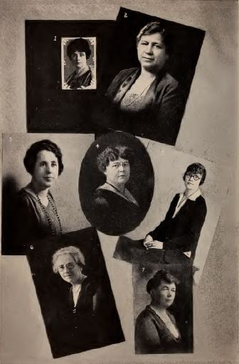 Women of the West; a series of biographical sketches of living eminent women in the eleven western states of the United States of America by Binheim, Max; Elvin, Charles A Publication date 1928 Topics Women Publisher Los Angeles, Calif., Publishers Press Collection uconn_libraries; americana Digitizing sponsor LYRASIS Members and Sloan Foundation Contributor University of Connecticut Libraries Language English 223 p. bports. c24 cm. Bookplateleaf 0003 Call number F595 .B59 Camera Canon EOS 5D Mark II Identifier womenofwestserie00binh Identifier-ark ark:/13960/t22c0sd8h Lccn 28021005 Ocr ABBYY FineReader 8.0 Page-progression lr Pages 284 Possible copyright status Copyright either not claimed or not renewed. Item is in the public domain. Ppi 500 Scandate 20130807152456 Scanner Scanningcenter boston Full catalog record MARCXML